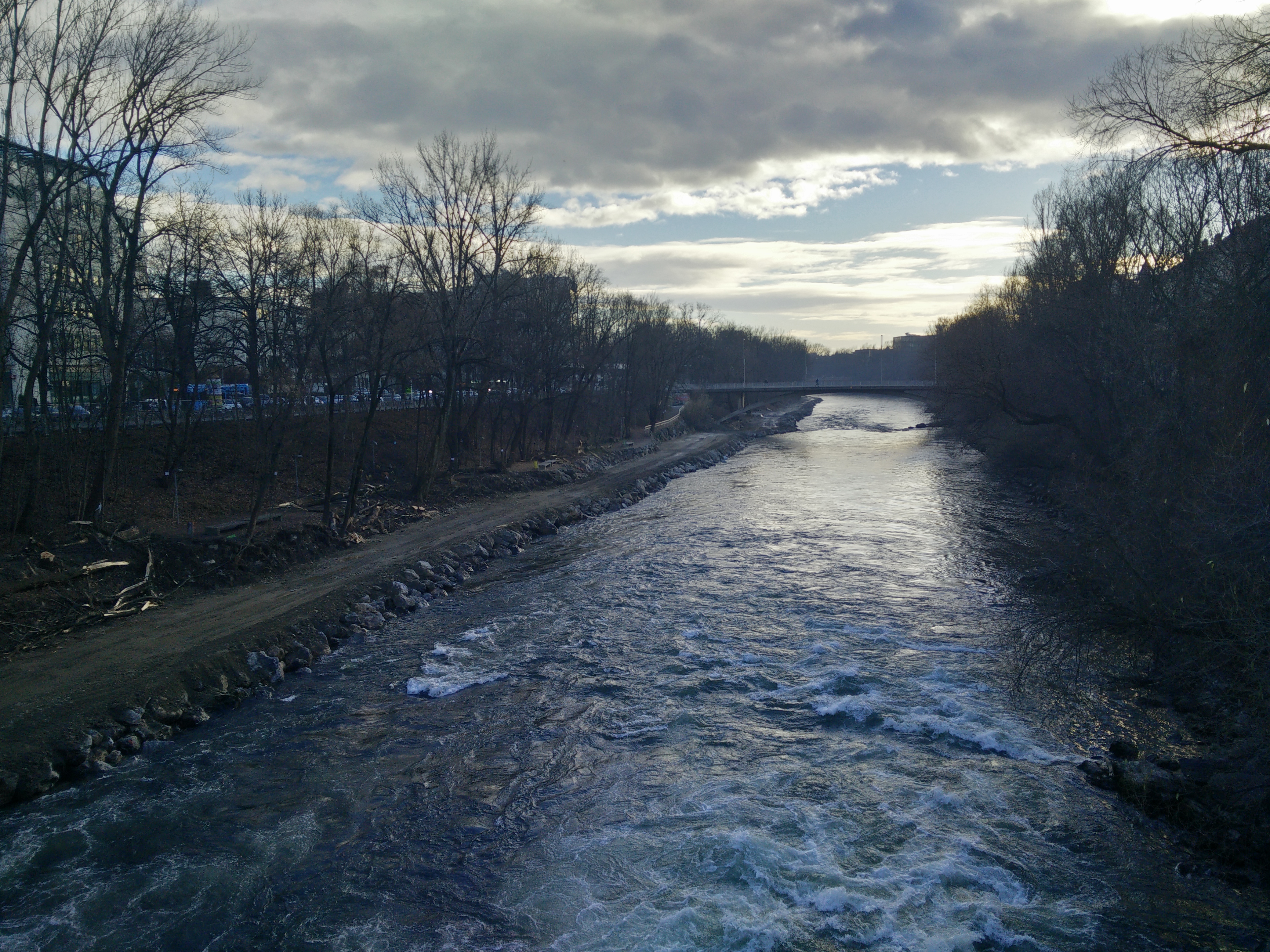 River Mur downstream from Radetzkybridge with construction-way for the combined sewer overflow storage tunnel on the left.